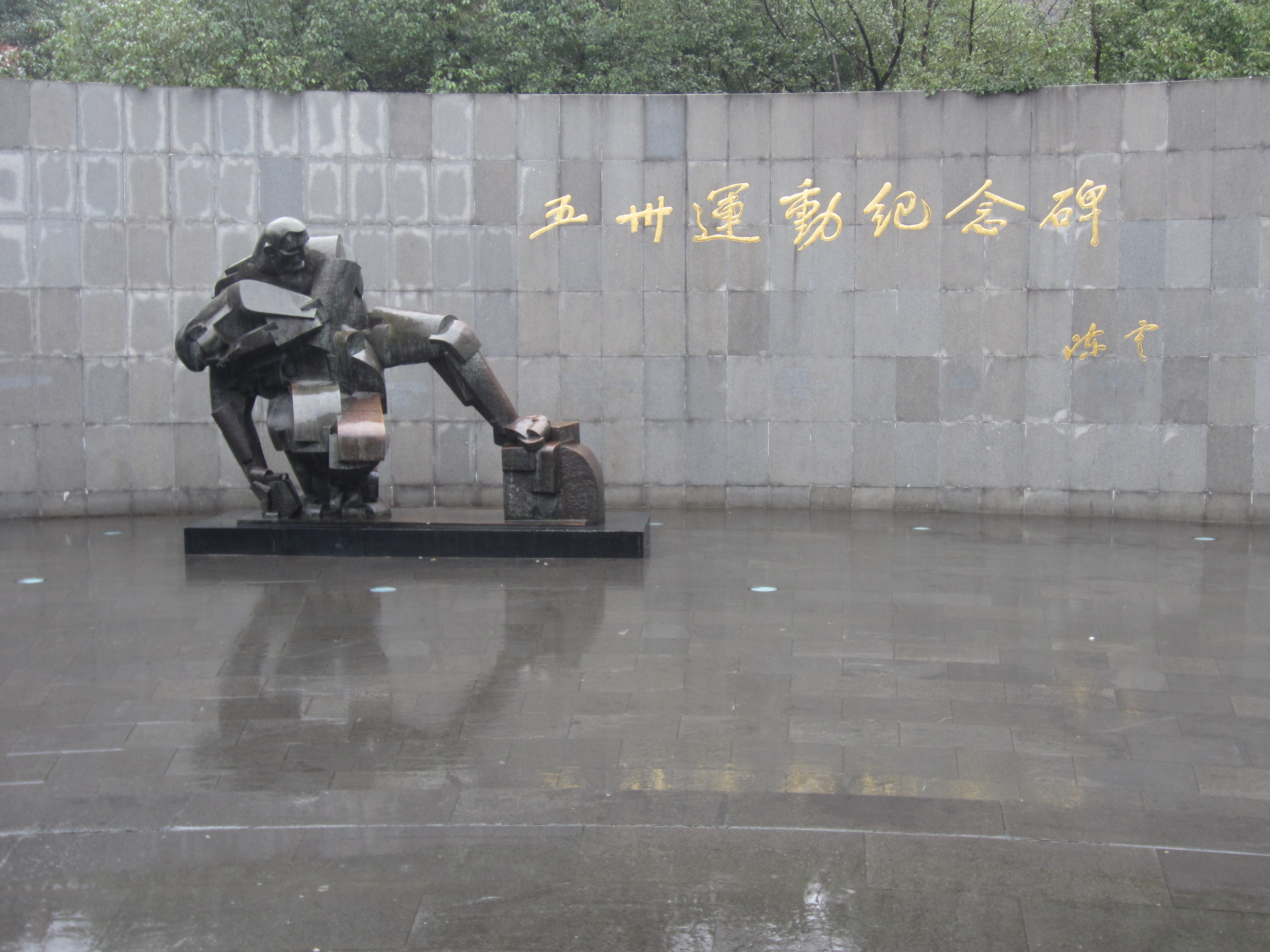 May Thirtieth Movement Monument, People's Park, Shanghai, China (2015)